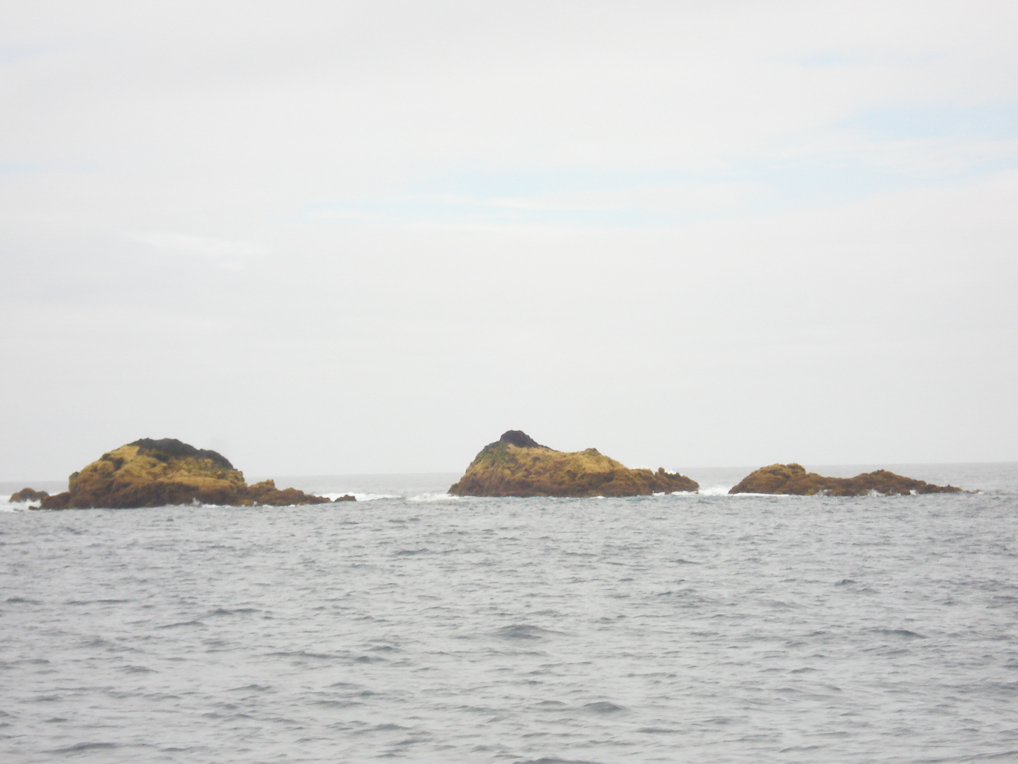 Outcropps of the Formigas Bank